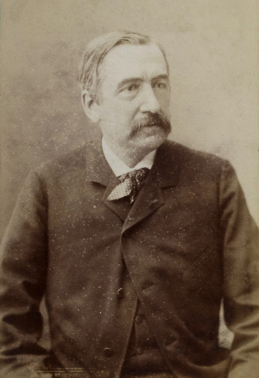 Portrait of the French archaeologist Léon Alexandre Heuzey